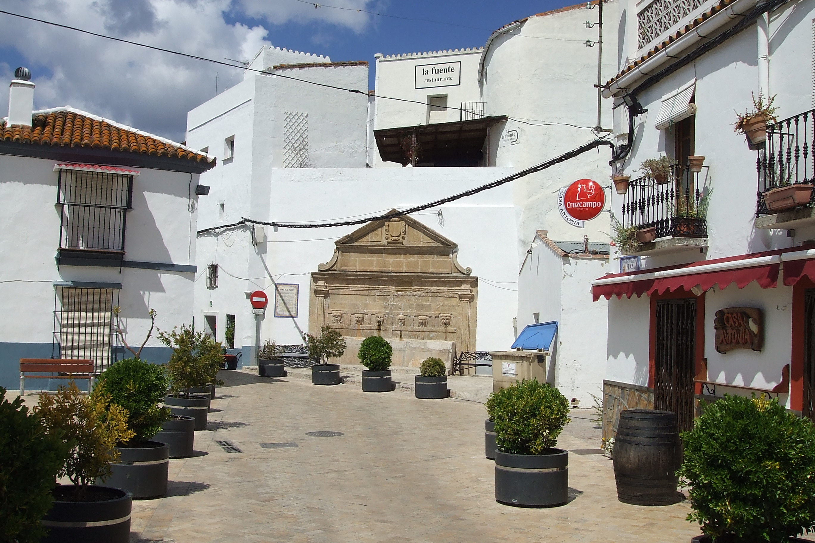 A street in Gaucín, Málaga, Spain